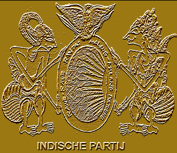 Logo of Indische Partij, on of the organizations during the National Awakening of Indonesia